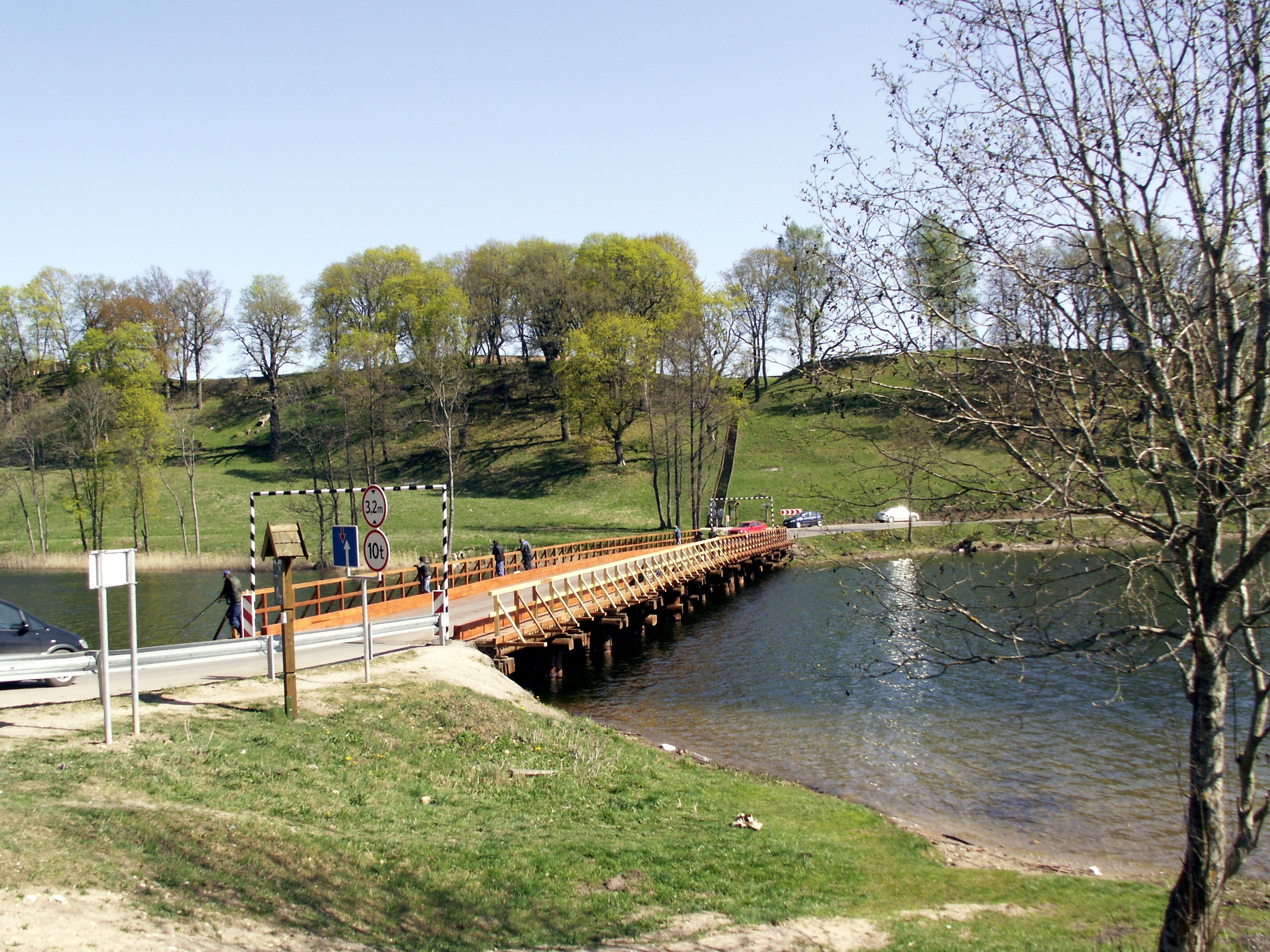 Bridge and ruins of Dubingiai castle, Lithuania